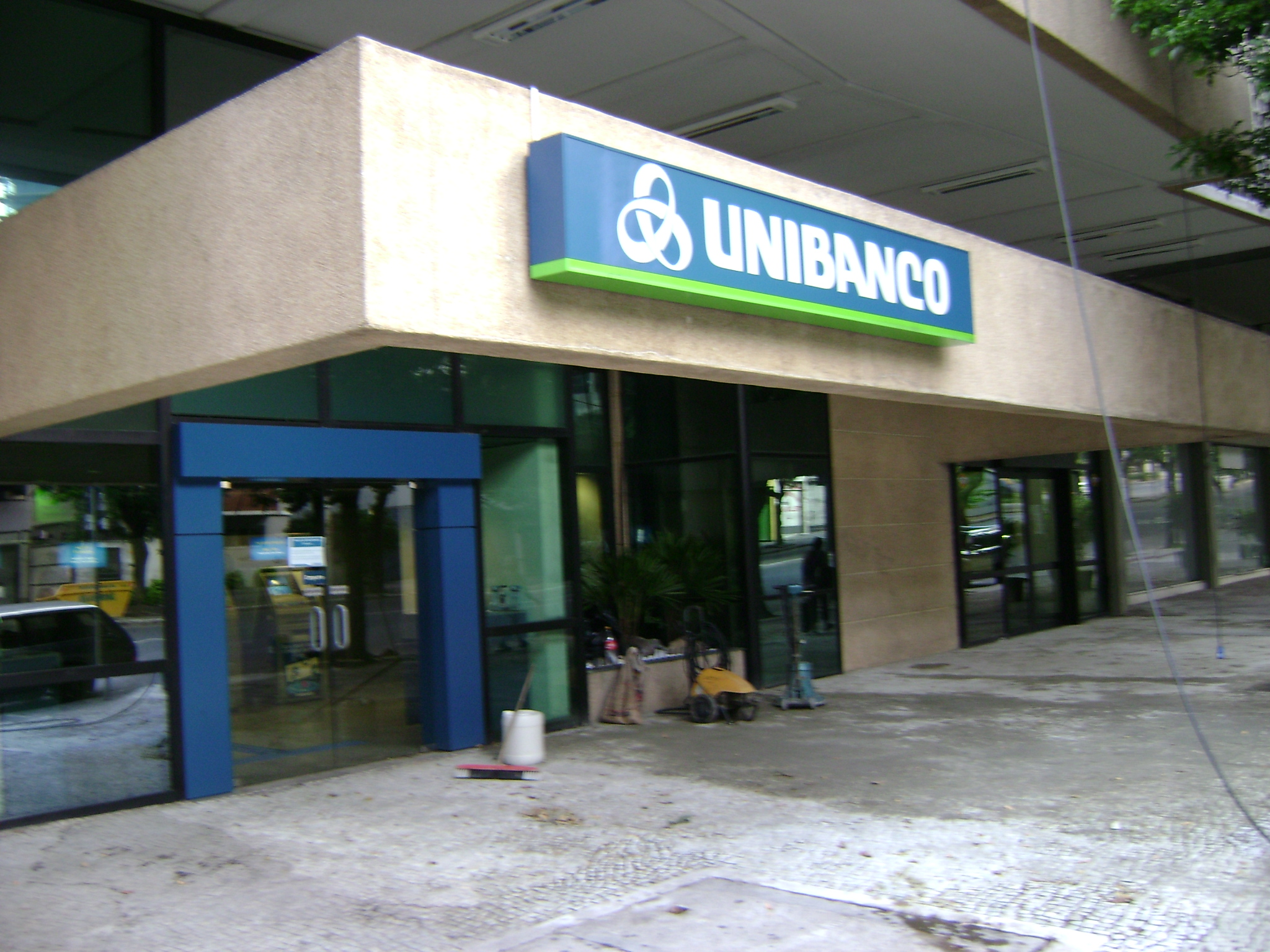 Filial do Unibanco em Belo Horizonte, na avenida Cristóvão Colombo.